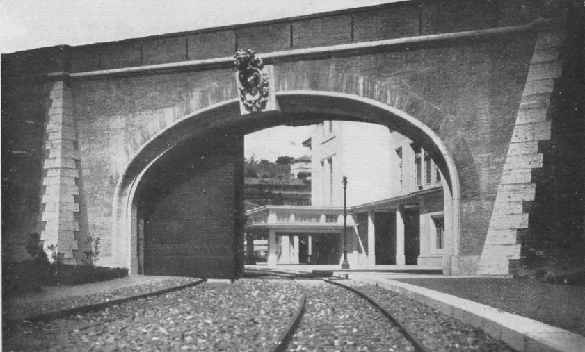 "Gateway in the Vatican with sliding door built in the wall surrounding the Vatican, which admits the railway to the Vatican station"